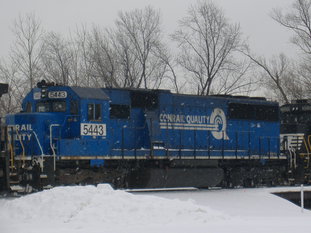 NS Loco No.5443 Kalamazoo, Michigan